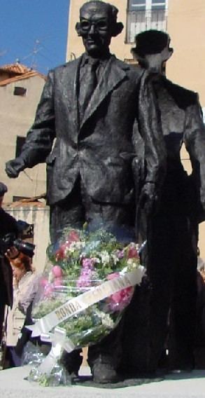 Sculpture of musician Agapito Marazuela in the square of the Jewish quarter of Segovia. Sculpture of J.M. Moro.